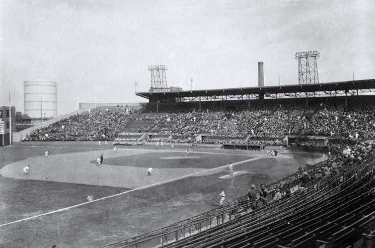 Photograph, Baseball game at Delorimier Park, Montreal, QC, about 1933, N. M. Hinshelwood, Silver salts on film - Gelatin silver process - 20 x 25 cm